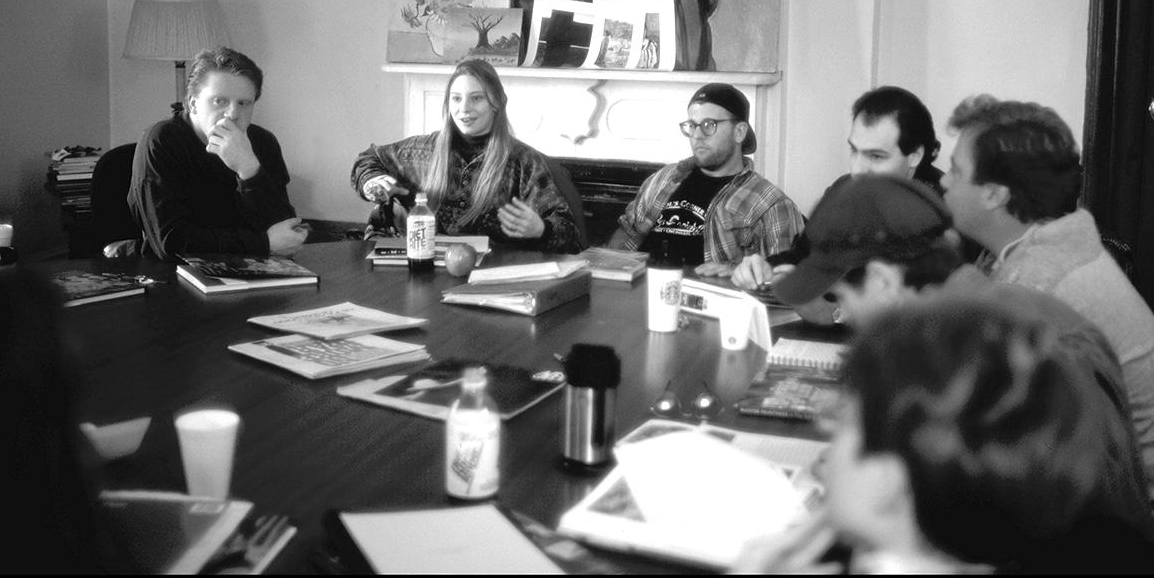 Humanities 1 class, focusing on the visual arts, held at Shimer College in Waukegan, some time between 1998 and the school's move to Chicago in 2006.